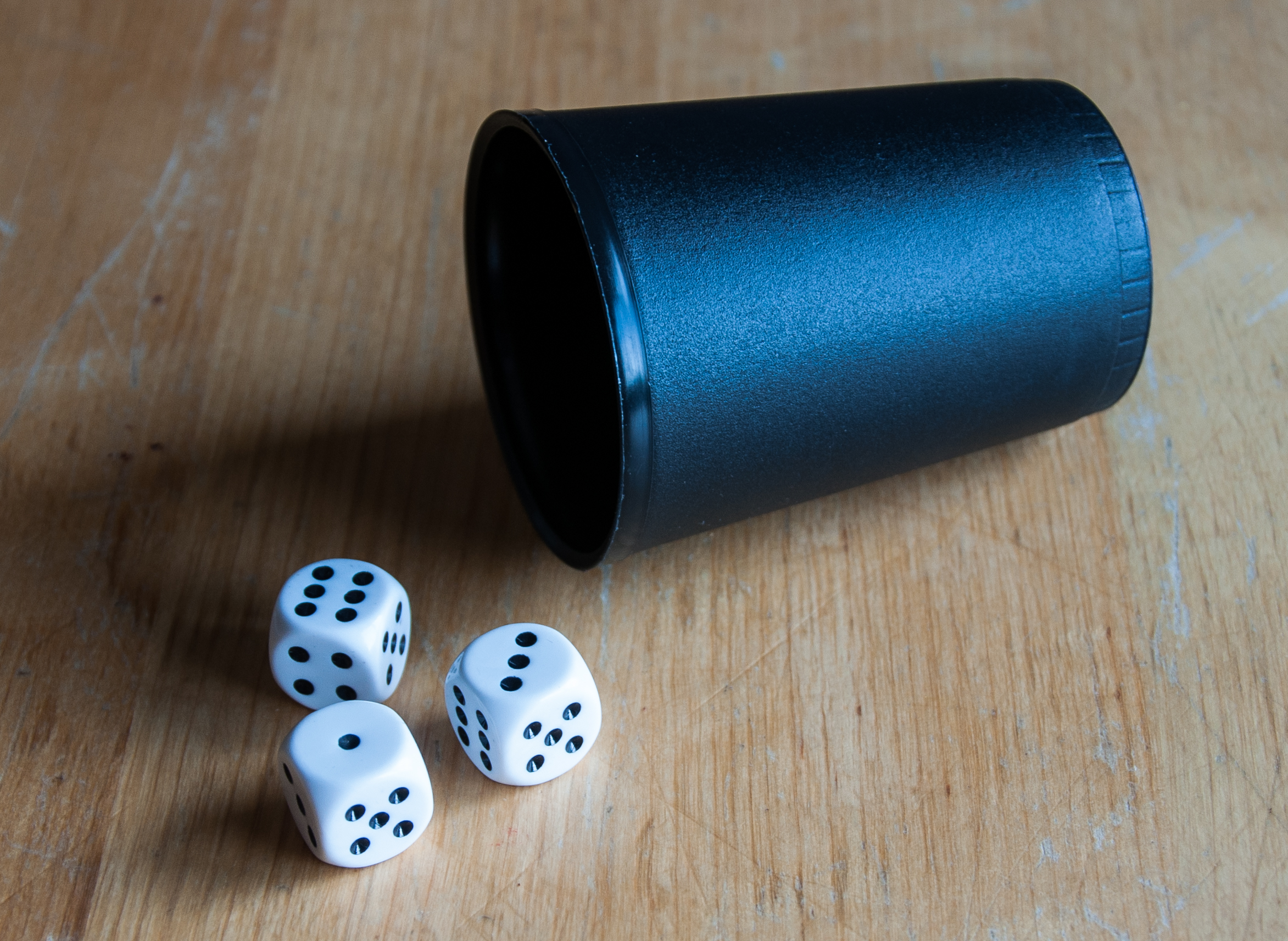 White dice